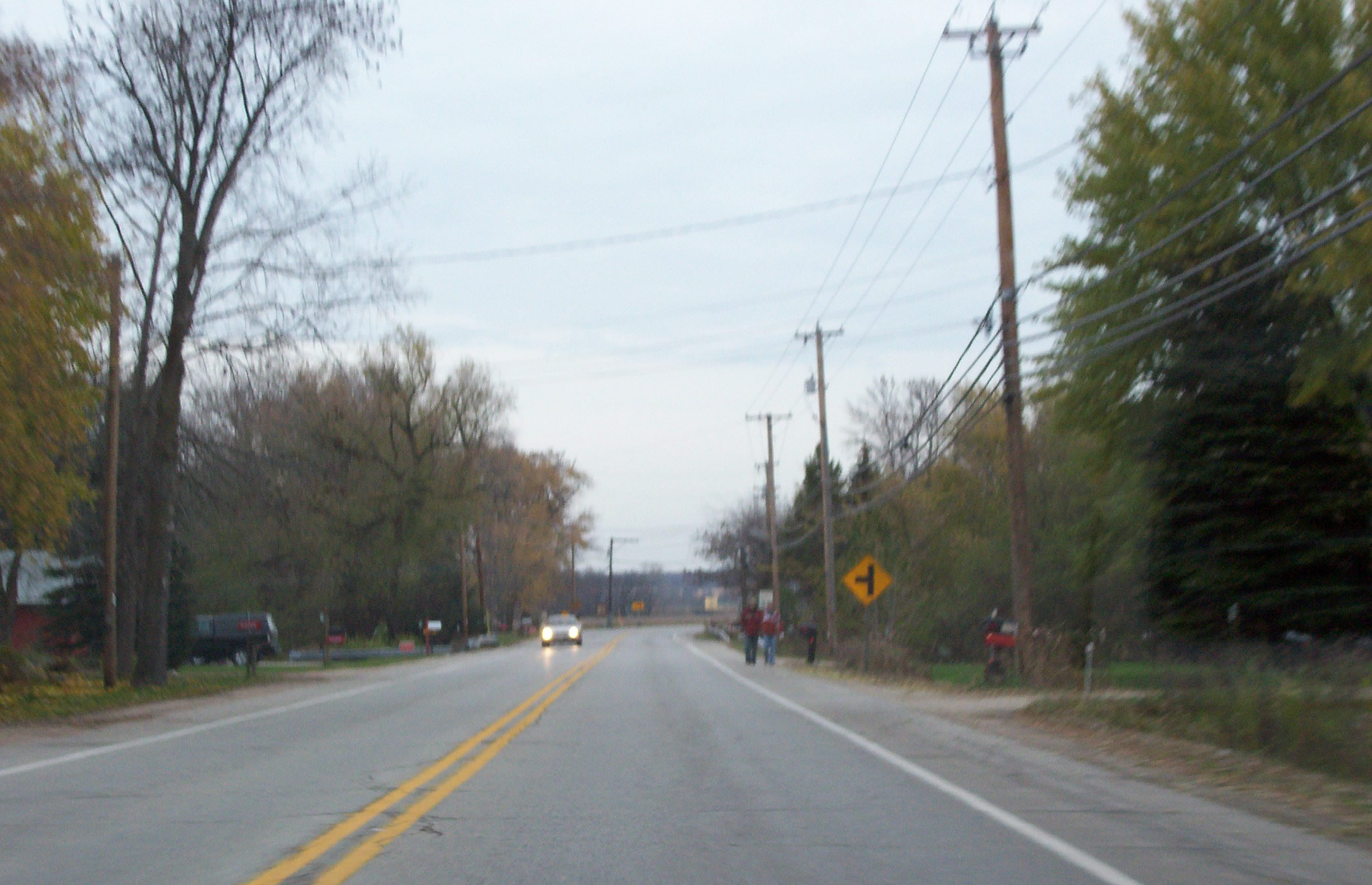 The unincorporated village of Taycheedah, Wisconsin, USA in the Town of Taycheedah in Fond du Lac County. Taken while travelly northeast on the former U.S. Route 151.